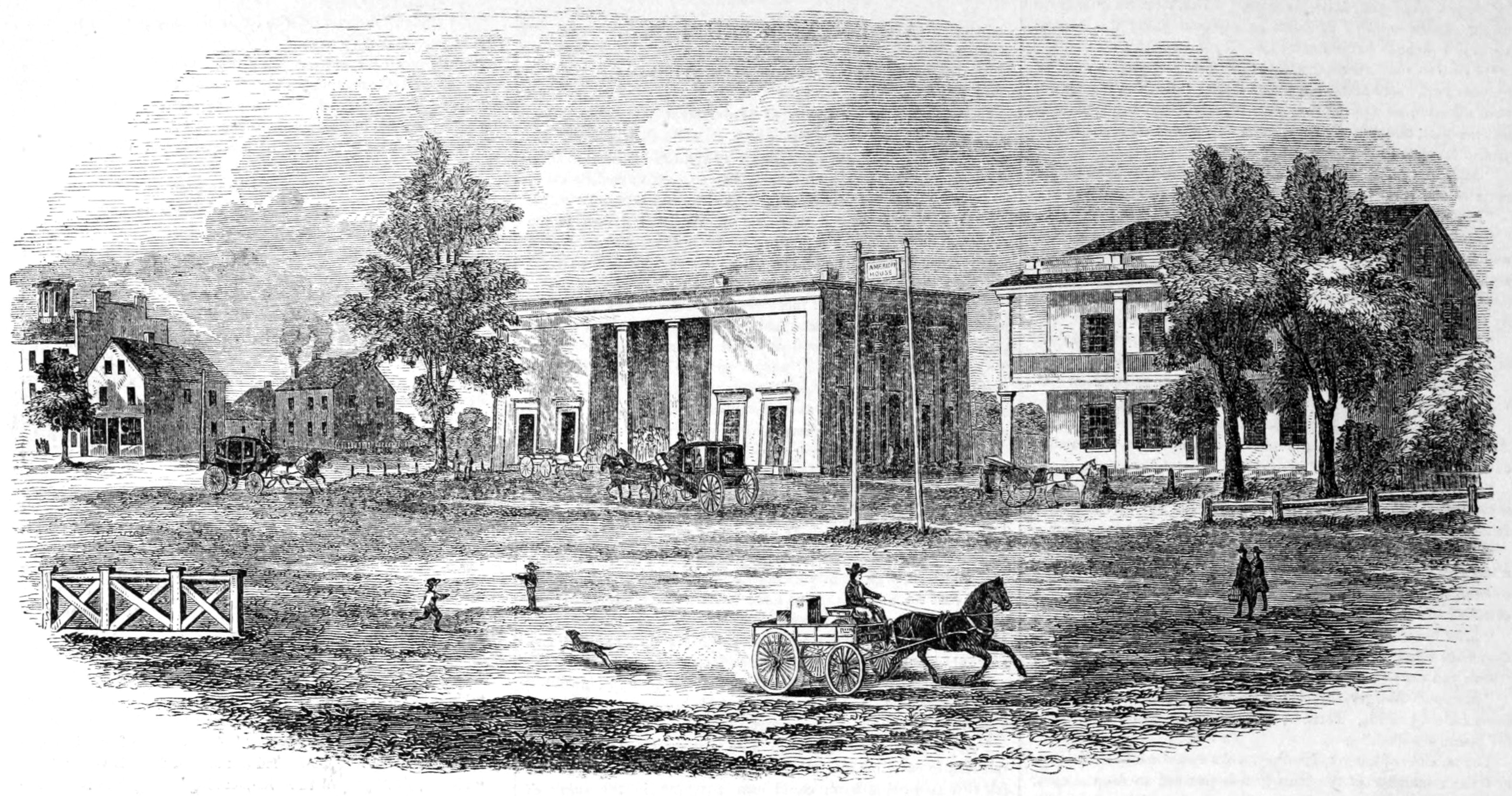 An early engraving of the 1840-built Pittsfield station. It was published in Ballou's Pictorial in 1855, but Images of America: Pittsfield claims it dates to 1842. The station burned in 1854.